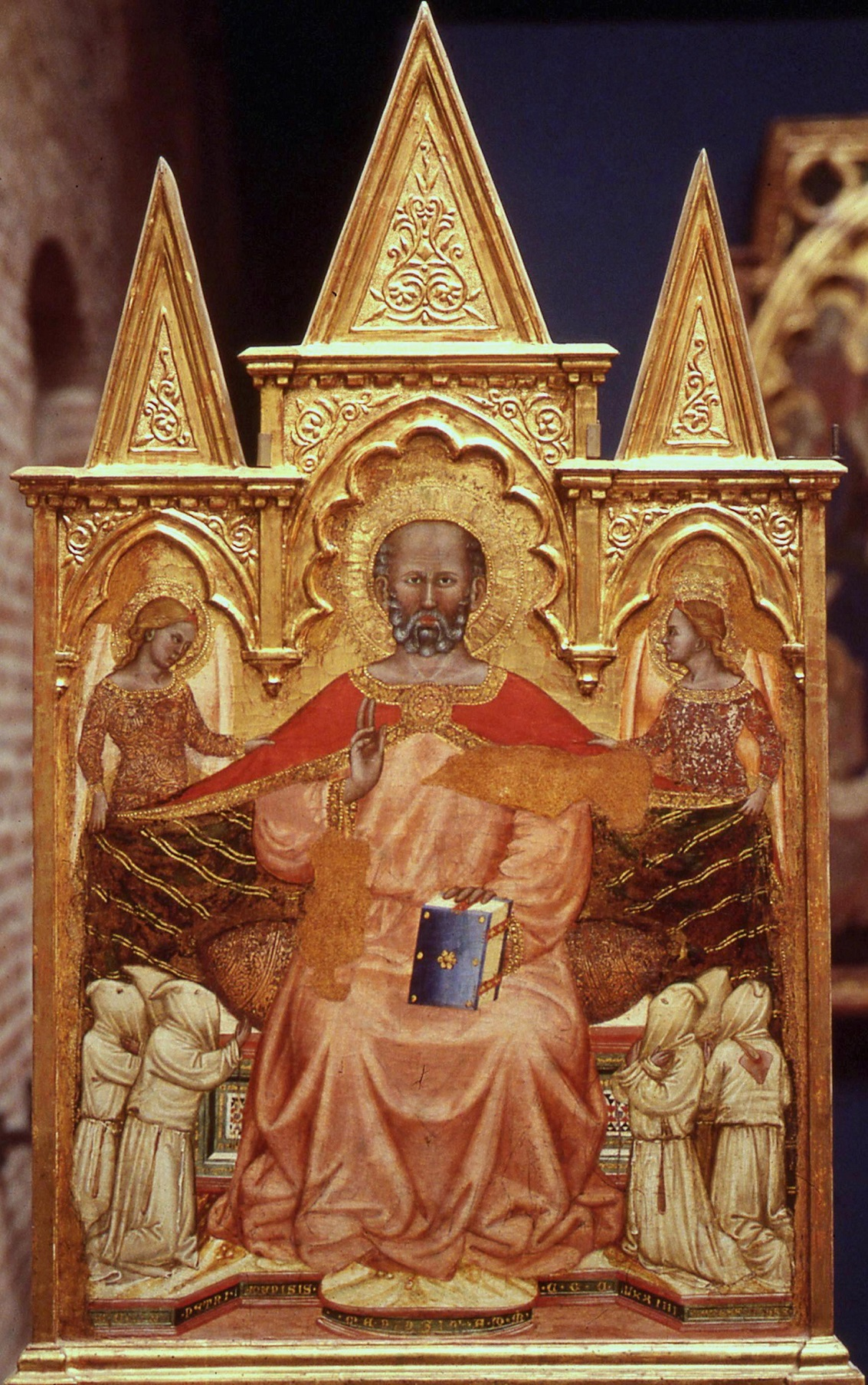 Cecco di Pietro, San Simone, Crocifissione, bandinella, 1373-74, Museo Nazionale di San Matteo, Pisa